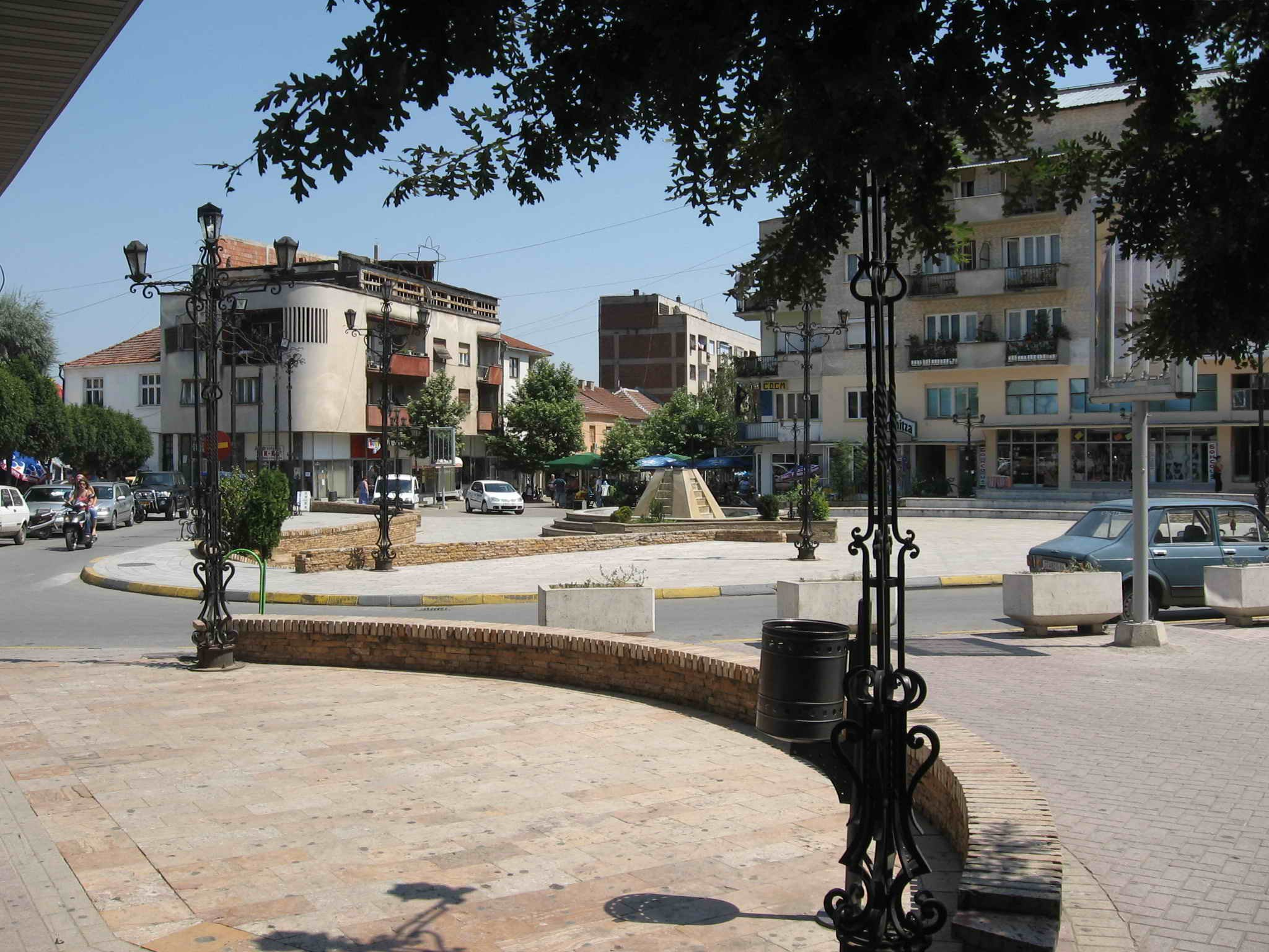 Radovis centre square